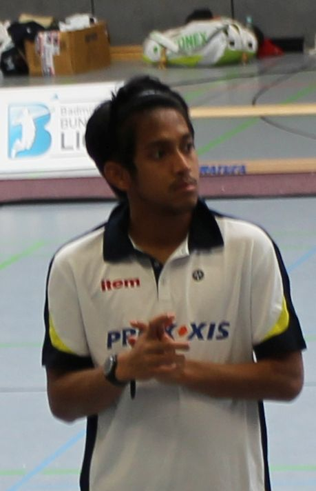 Adi Pratama